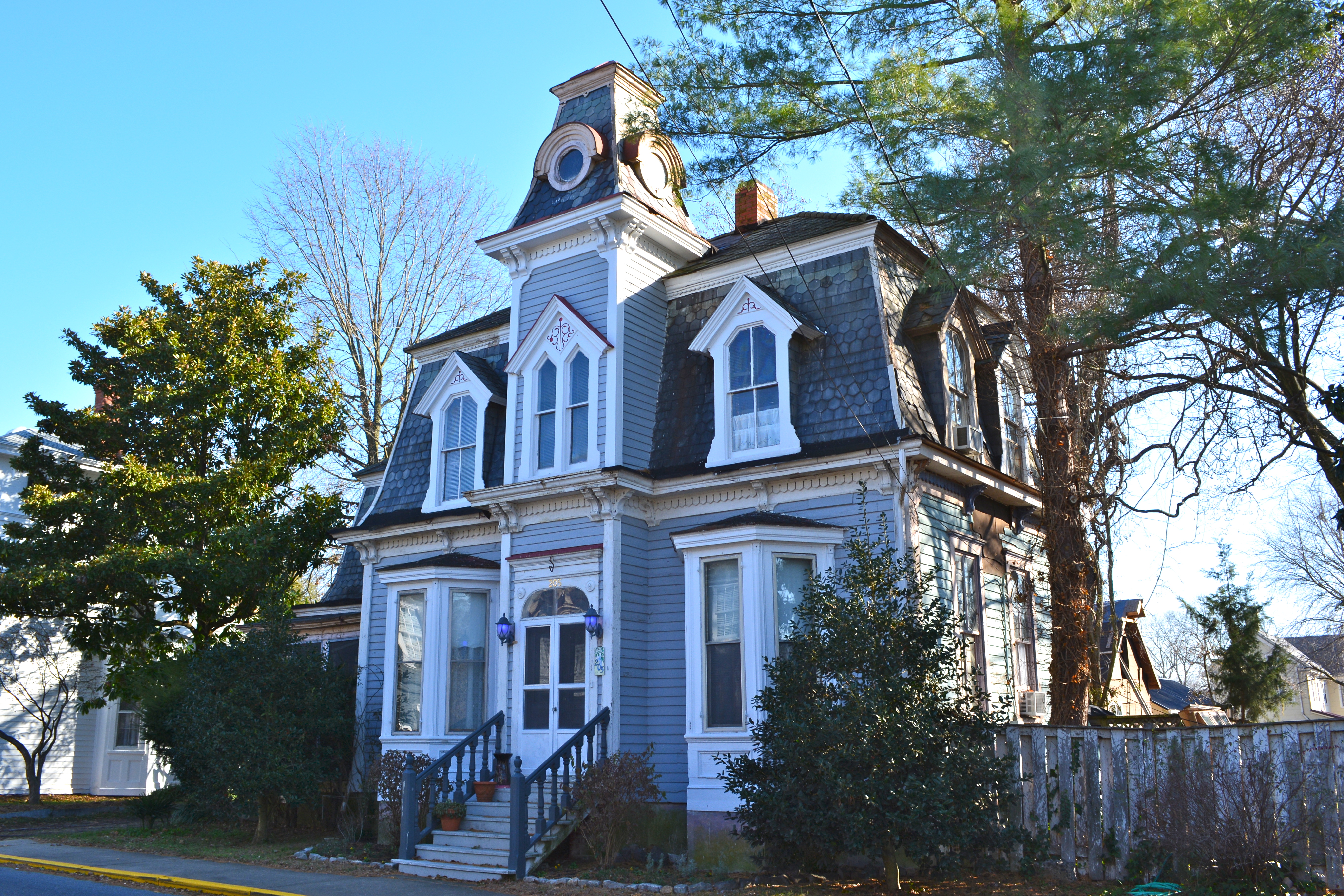 Building in the Milton (Delaware) Historic District, a dded to NRHP June 25, 1982. The HD runs along Delaware Highway 5 (Union and Federal Streets) and adjoining streets.